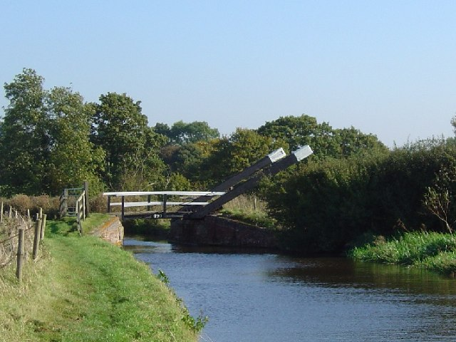 Chisnell Lift Bridge over the Oxford canal west of Souldern, Oxfordshire: view from the south